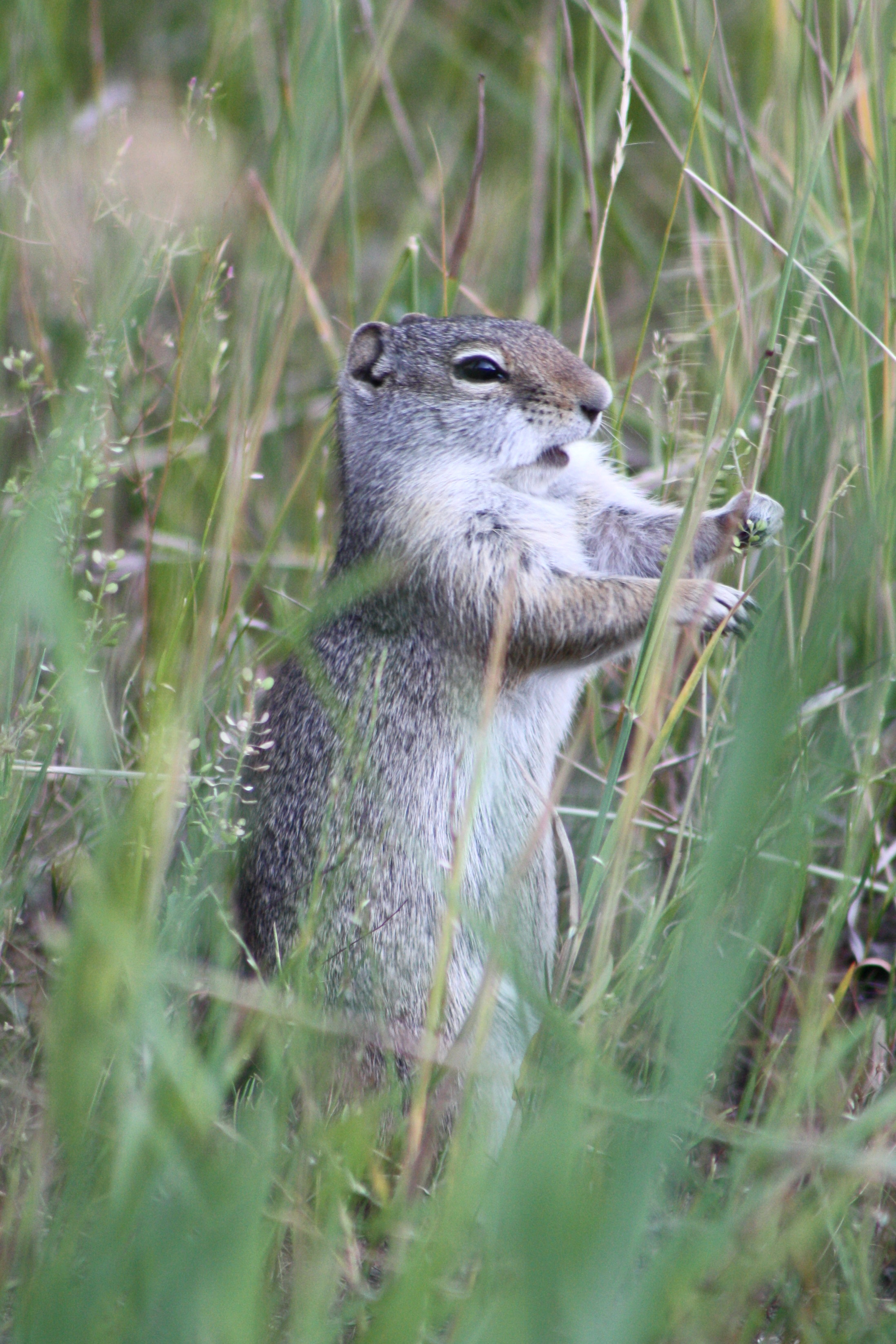 Uinta Ground Squirrel; Urocitellus armatus (formerly Spermophilus armatus); WY